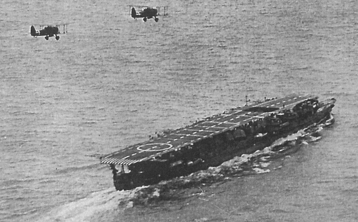 Japanese aircraft carrier Ryūjō supported japanese operations in the Shangai and Guangdong regions during the second sino-japanese war. Aircrafts over the ship are Aichi D1A2 dive-bombers.